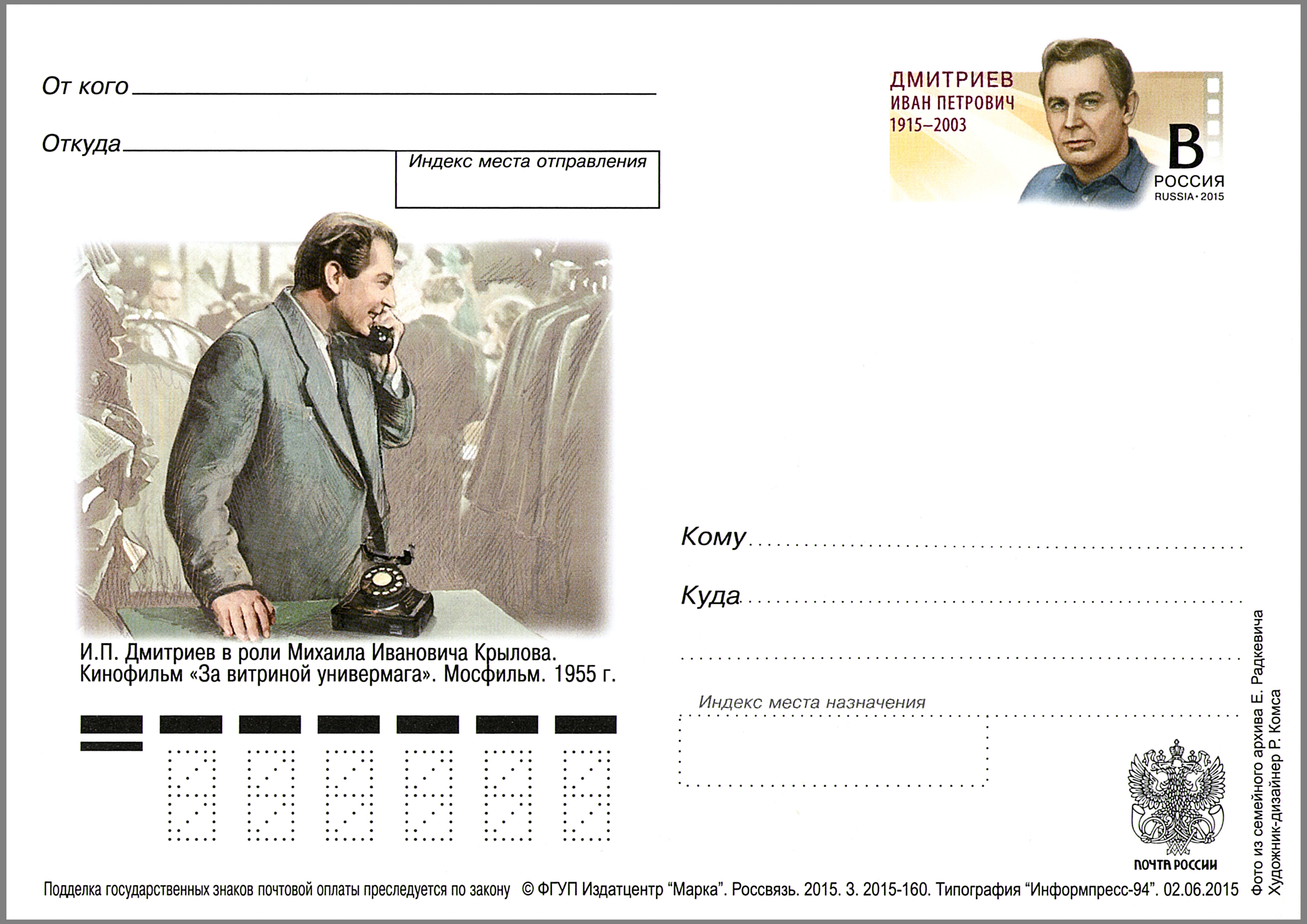 100th birth anniversary of Ivan Petrovich Dmitriev (1915—2003), a Soviet cinema and theater actor. The postal stationery card with the imprinted commemorative stamp, Russia, 23 July 2015, PTC Marka Catalogue No 270/окр. Coated paper. Offset printing. Size of the postal card: 105×148 mm. Print run: 13,000. The commemorative non-denominated stamp “Letter B” (for domestic postal cards): the portrait of Ivan Dmitriev. The illustration: Ivan Dmitriev as Mikhail Ivanovich Krylov in the film Beyond a Window of the Department Store (USSR, Mosfilm, 1955).